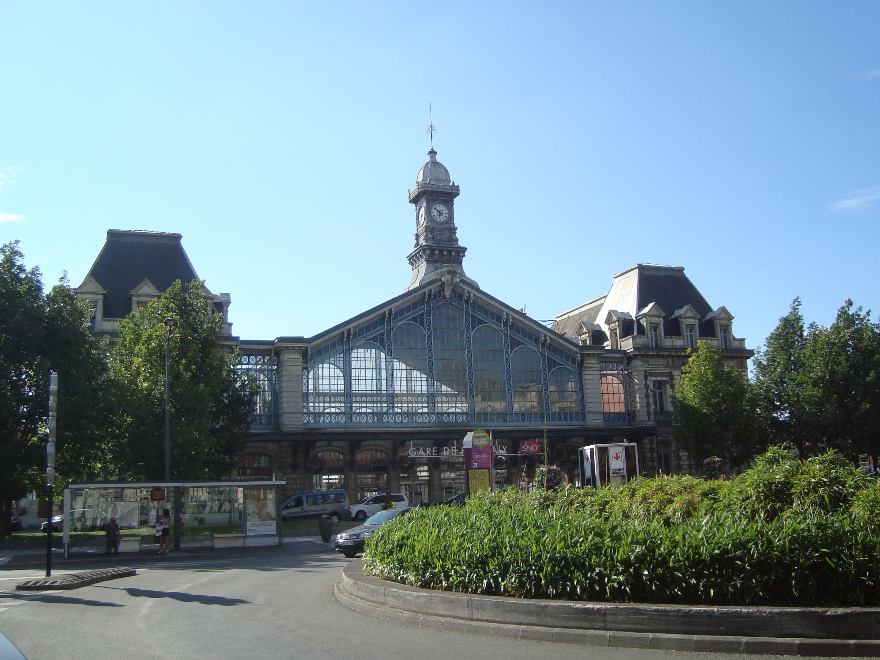 Roubaix railroad station